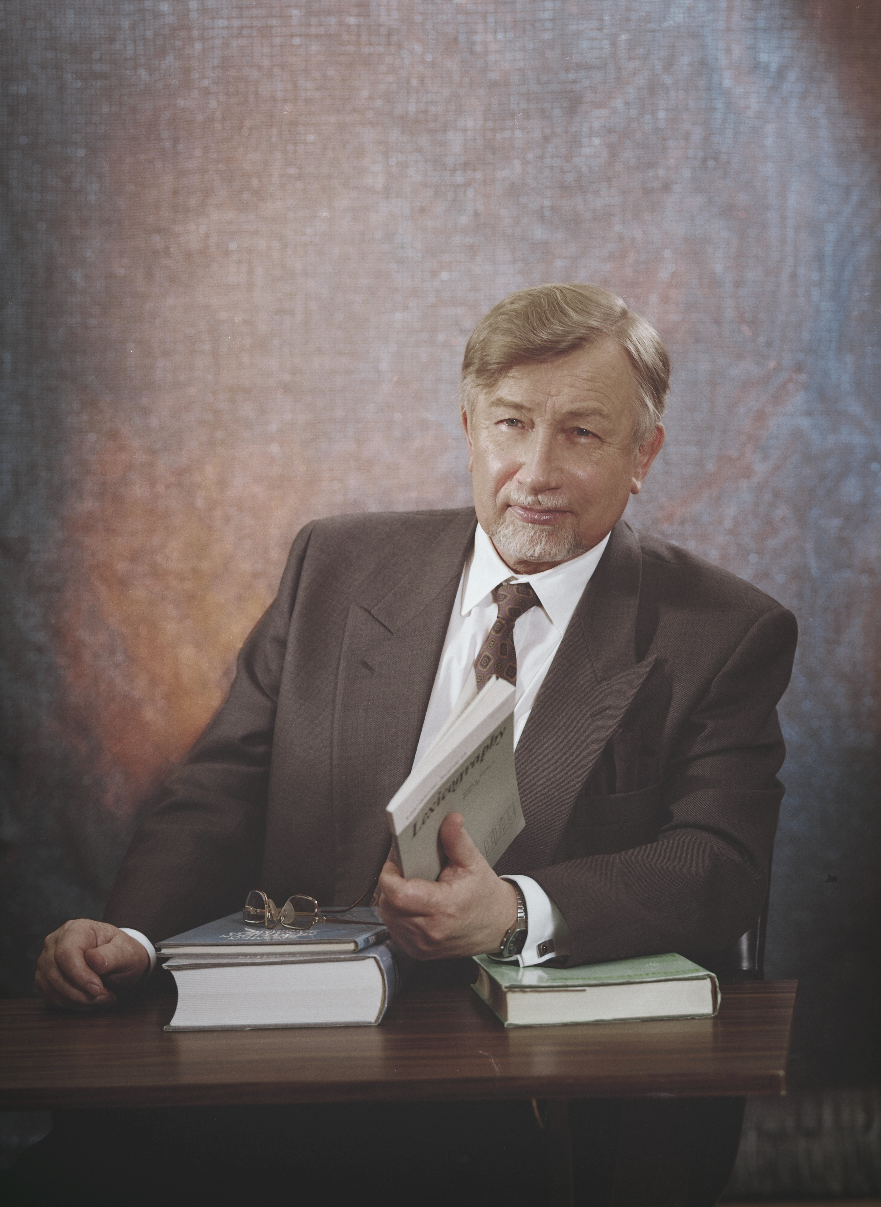 Photograph of the Finnish linguist Tuomo Tuomi (1929–2011).